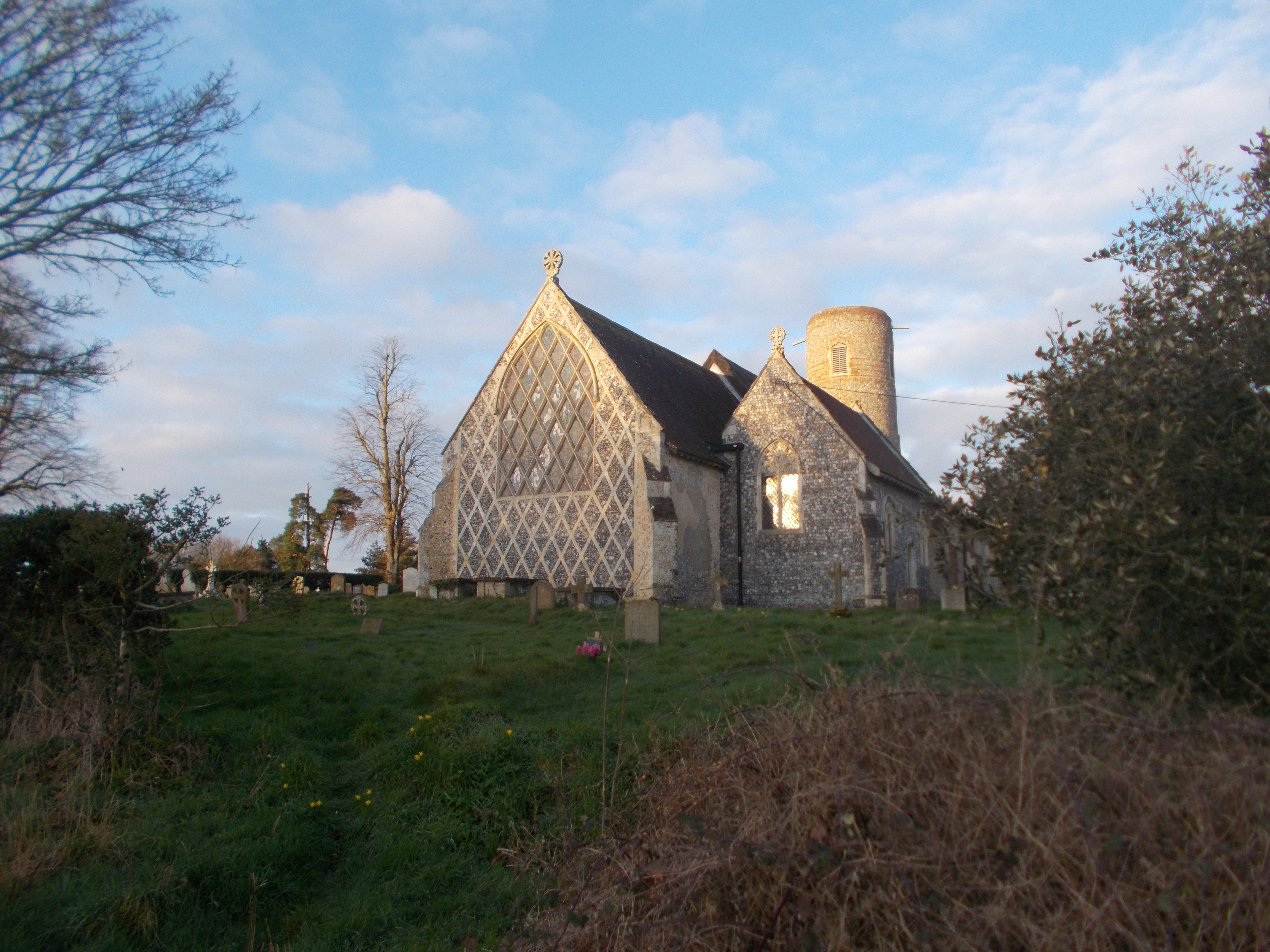 Barsham church, Suffolk, from the NE, showing the east gable and window with fretty tracery and flushwork, possibly representing the heraldic bearing of the Echyngham family.